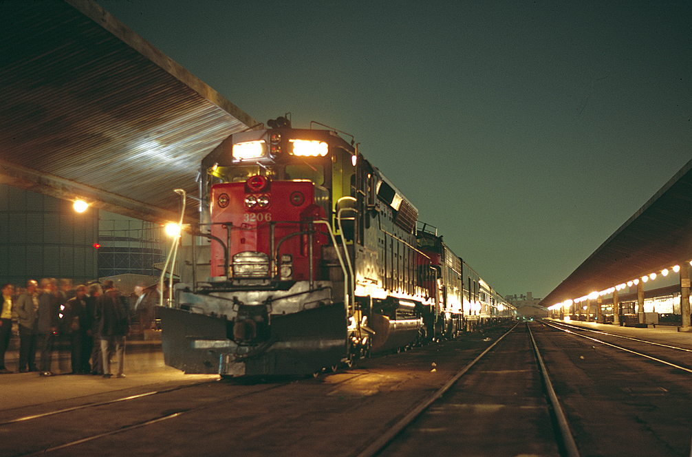 The last Train #75, SP's The Lark with SDP3206 on the point ready to leave Los Angeles April 8th, 1968